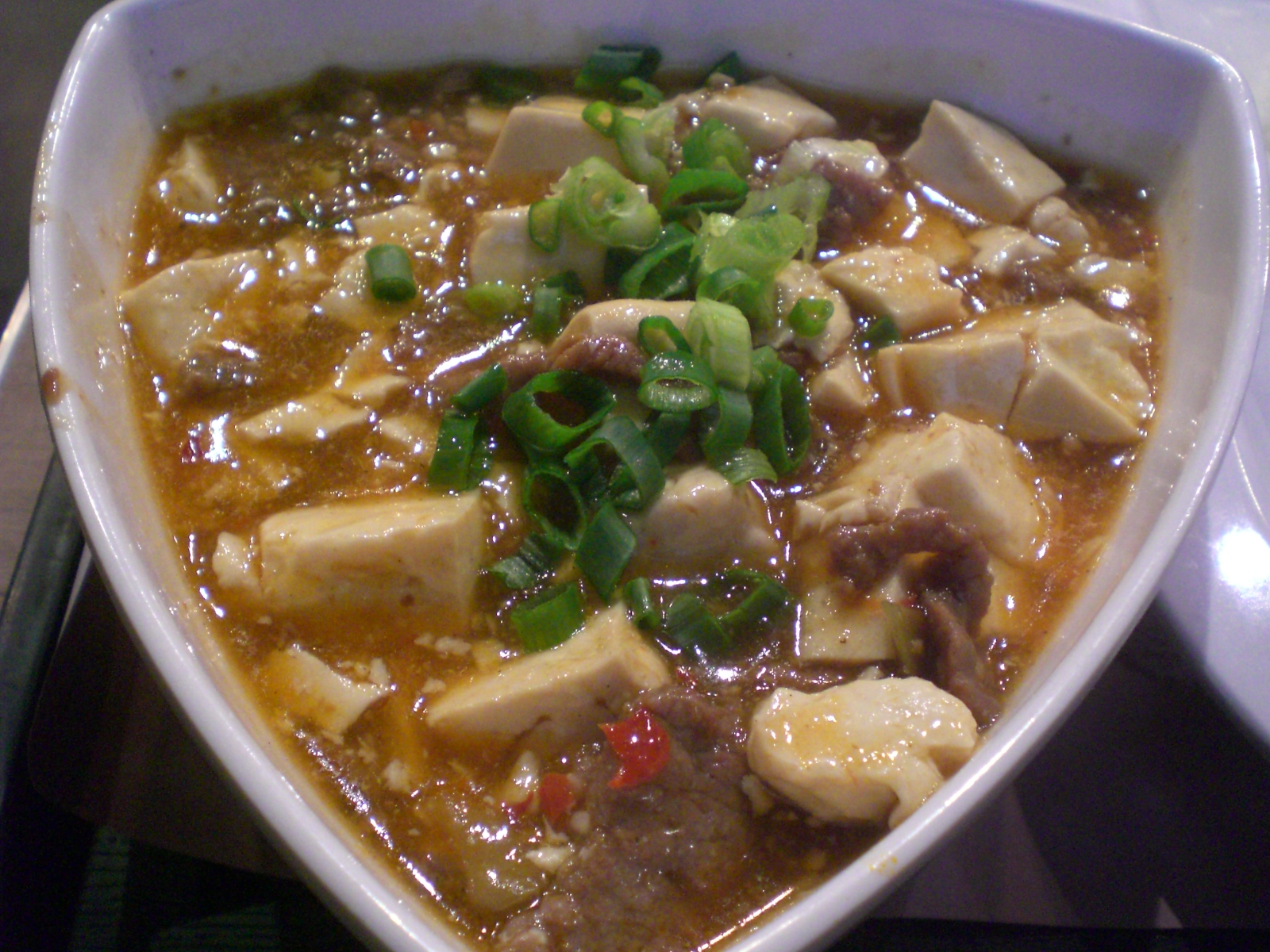 尖沙咀 大家樂 快餐食品 麻婆豆腐